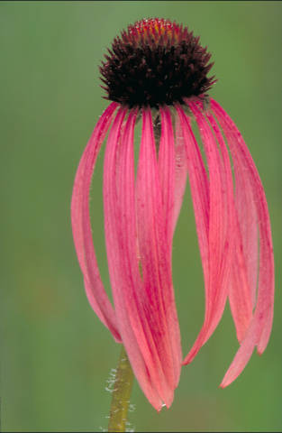 Photo: Dr. Thomas G. Barnes, USFWS